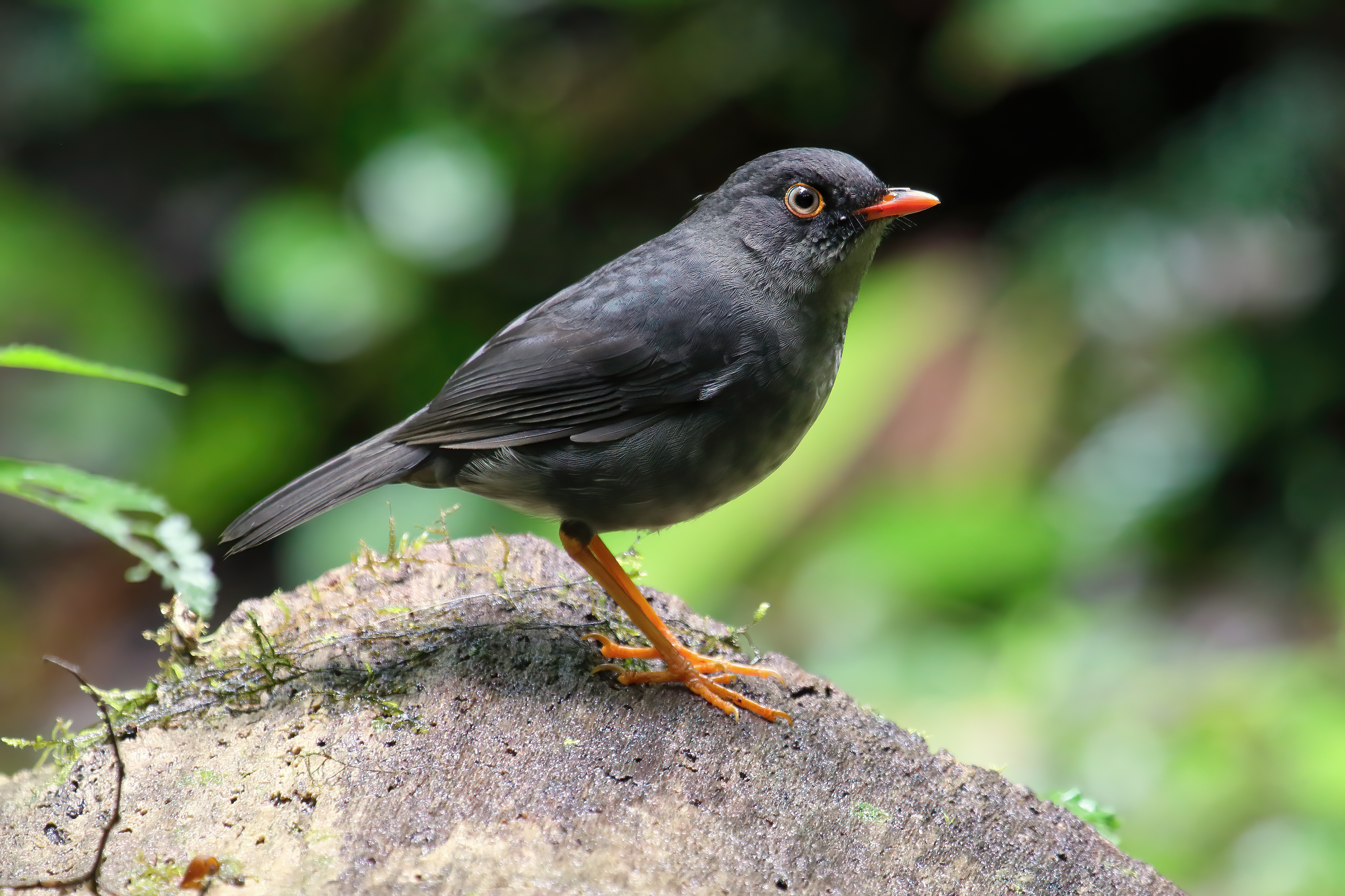 Slaty-backed nightingale-thrush, Monteverde Cloud Forest Reserve, Costa Rica